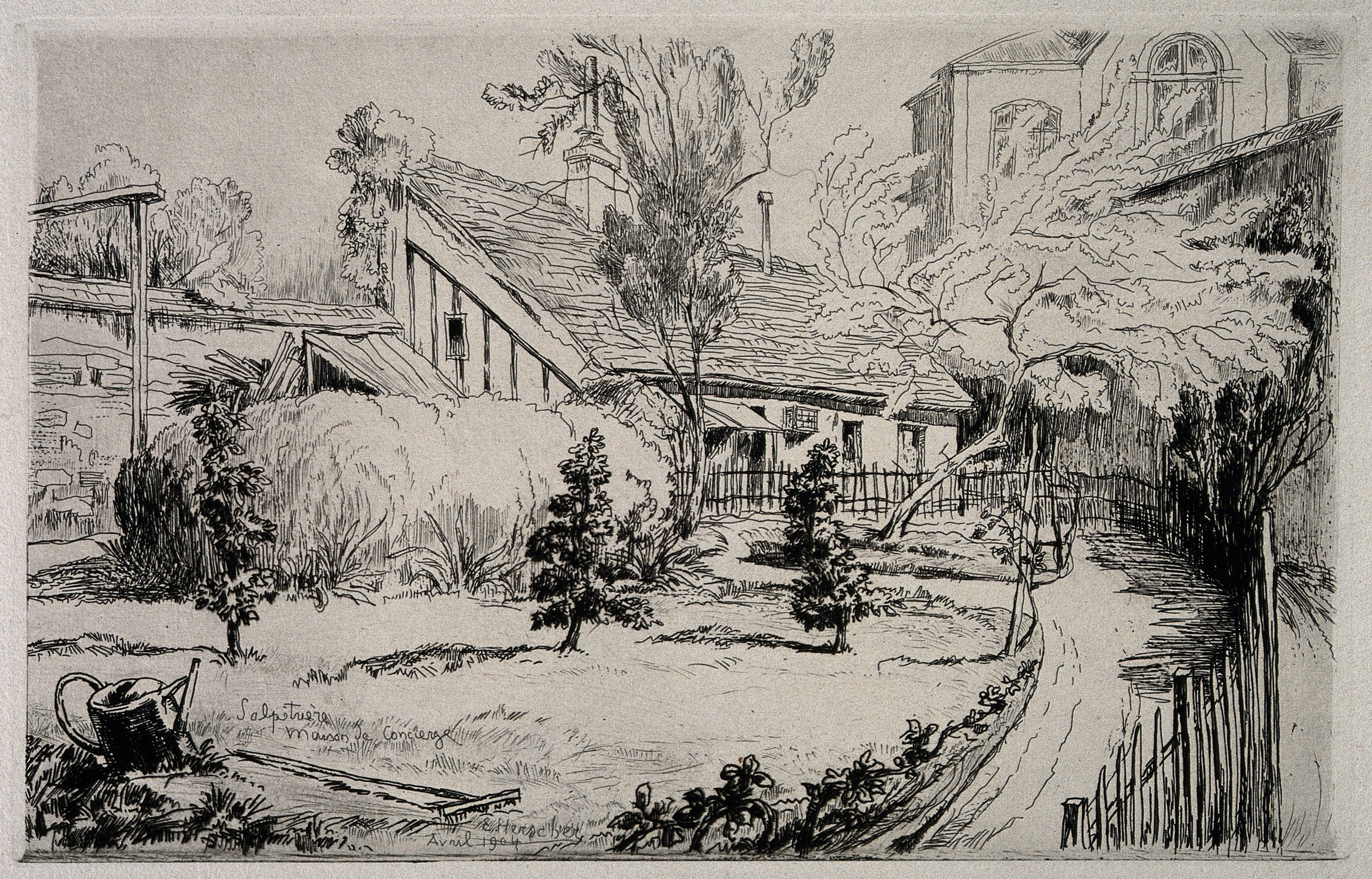 Hôpital de la Salpêtrière, Paris: caretaker's lodge. Etching by E. Herscher, 1904. Iconographic Collections Keywords: Ernest-Marie Herscher; Hôpital Salpêtrière (Paris, France)